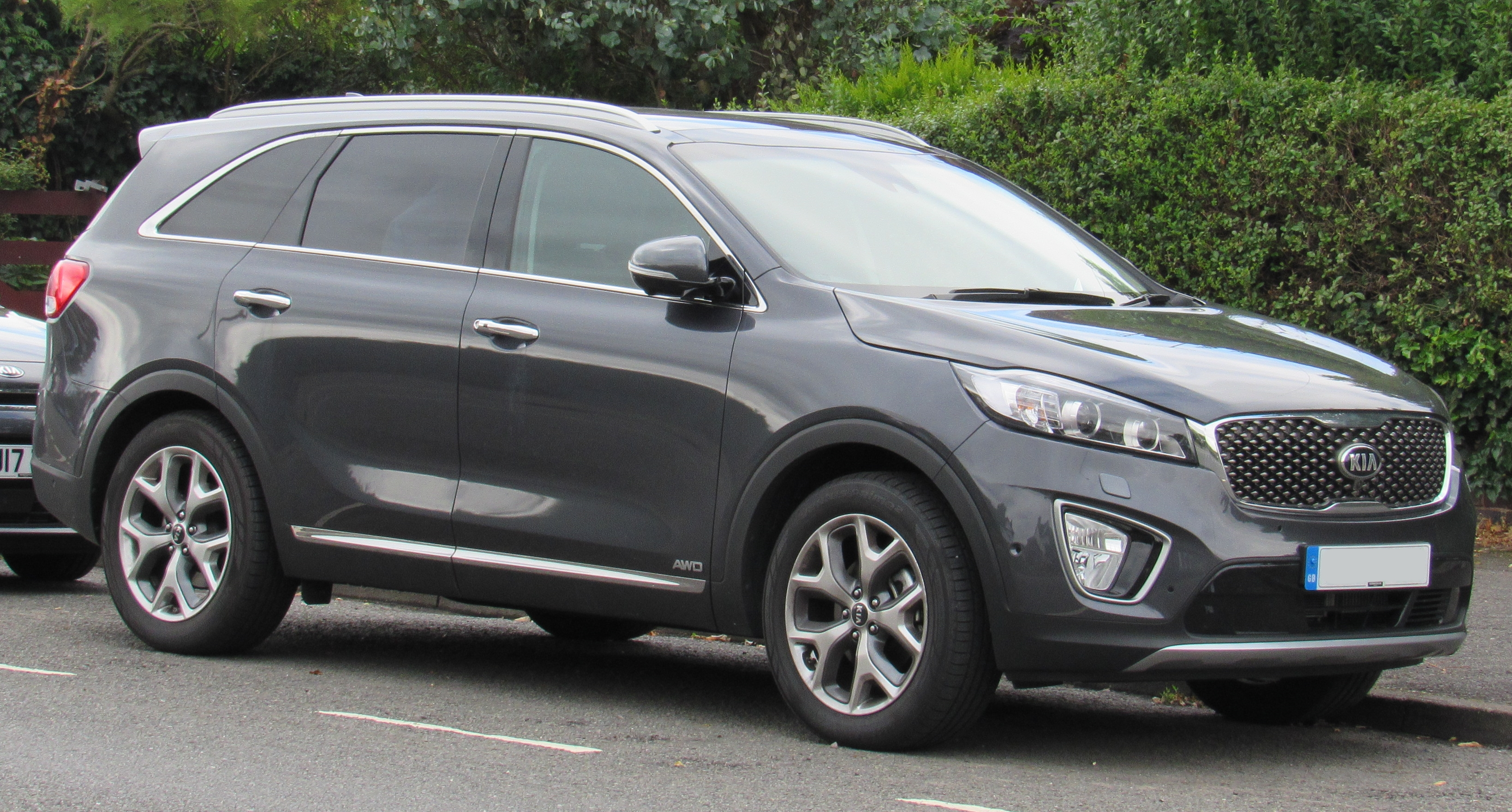 2017 Kia Sorento KX-4 4X4 Automatic 2,2 Front Taken in Warwick